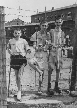 Young survivors behind a barbed wire fence in Buchenwald concentration camp. Among those pictured is Abram Zylbersztajn (middle).